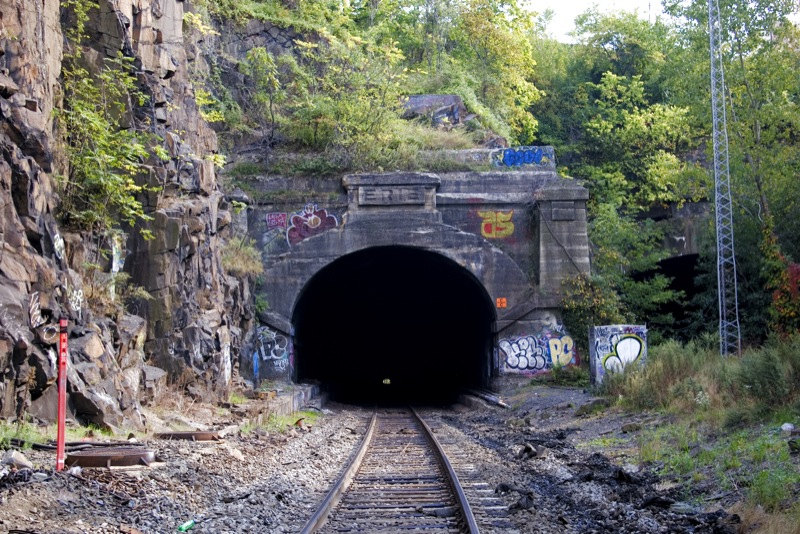 The Long Dock Tunnel (orginally called the Bergen Tunnel) was opened in 1861. It was the second crossing through the lower Hudson Palisades, the first being the PRR's Bergen Hill Cut at what is now Journal Square Transportation Center. The Long Dock was used by both the Erie and the DL&W until around 1908-1910 when the respective railroads each built new tunnels/cuts. The Erie Cut under Bergen Arches is just to the south of the Long Dock. The DL&W's Bergen Hill Tunnels are farther north under Jersey City Heights. In conjunction with the Holland Tunnel and the Pulaski Skyway the Route One Extension was built in yet another cut just north and parallel to the Long Dock Tunnel. Now known as State Highway 139 the road passes over the tunnel just before they both exist the west side of the Palisades under Kennedy Boulevard in Jersey City.